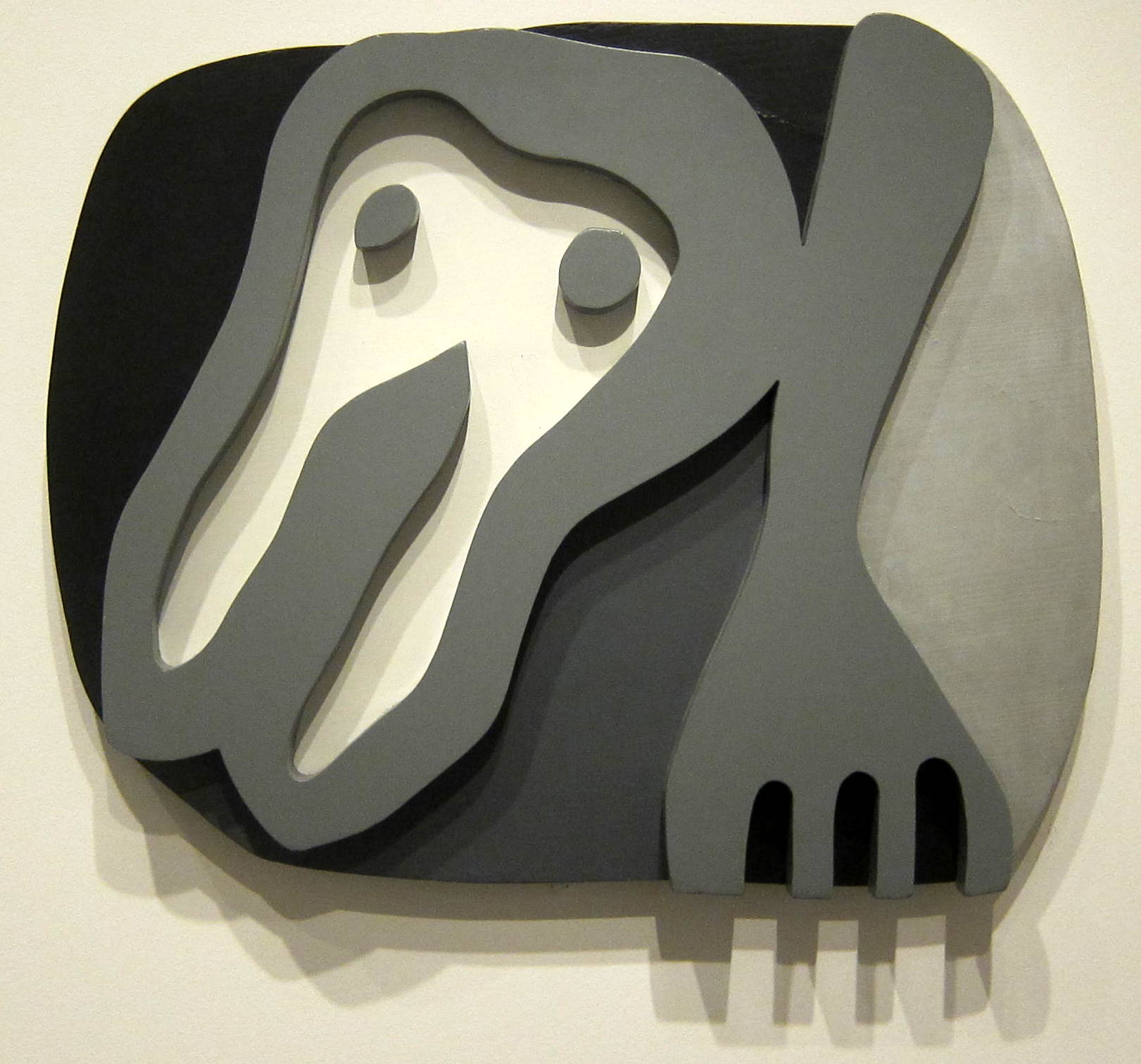 Shirt Front and Fork (painted wood, 1922, Jean Arp) inside the National Gallery of Art's East Building, located on the National Mall in Washington, D.C.